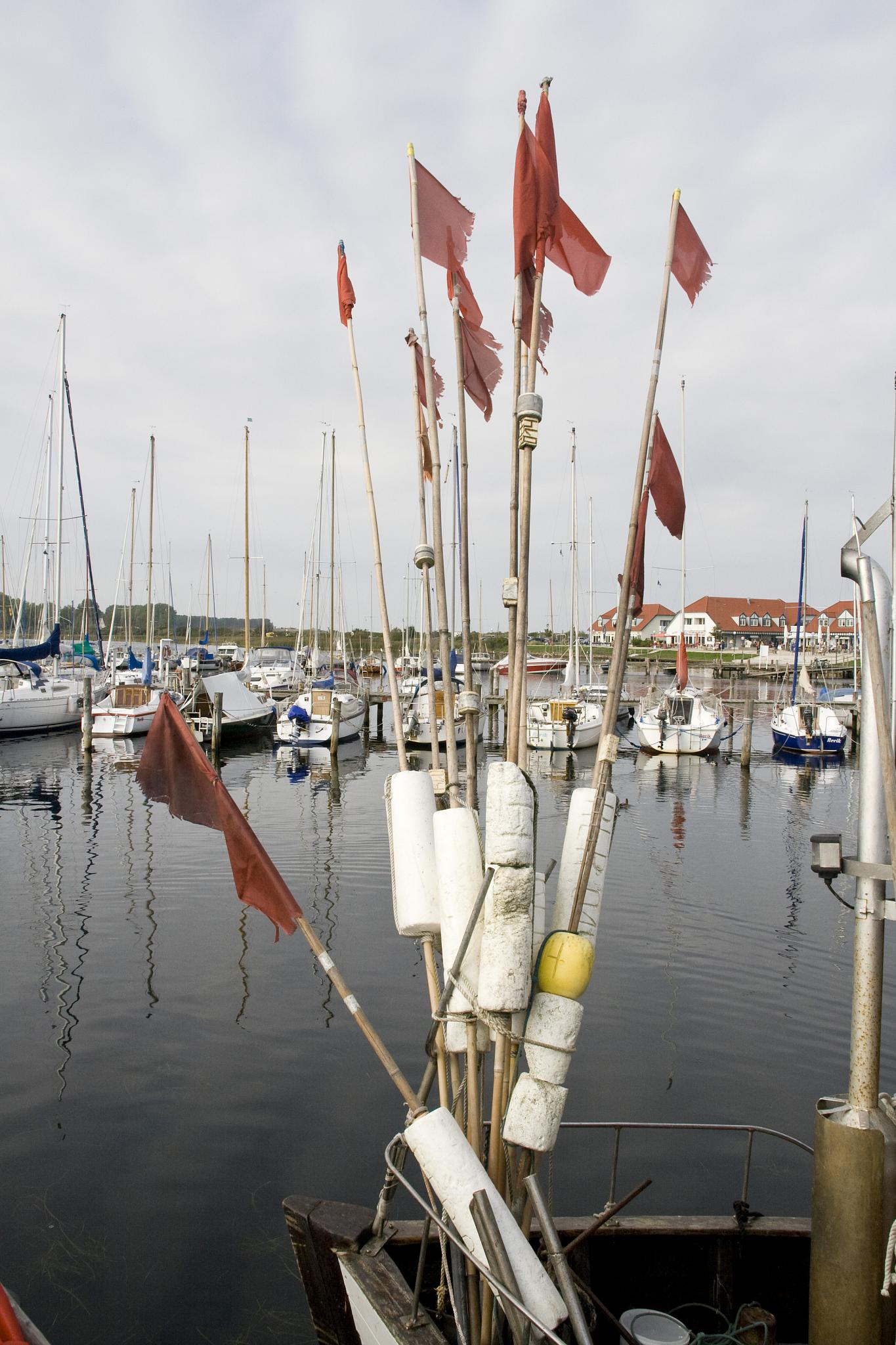 See where this picture was taken.